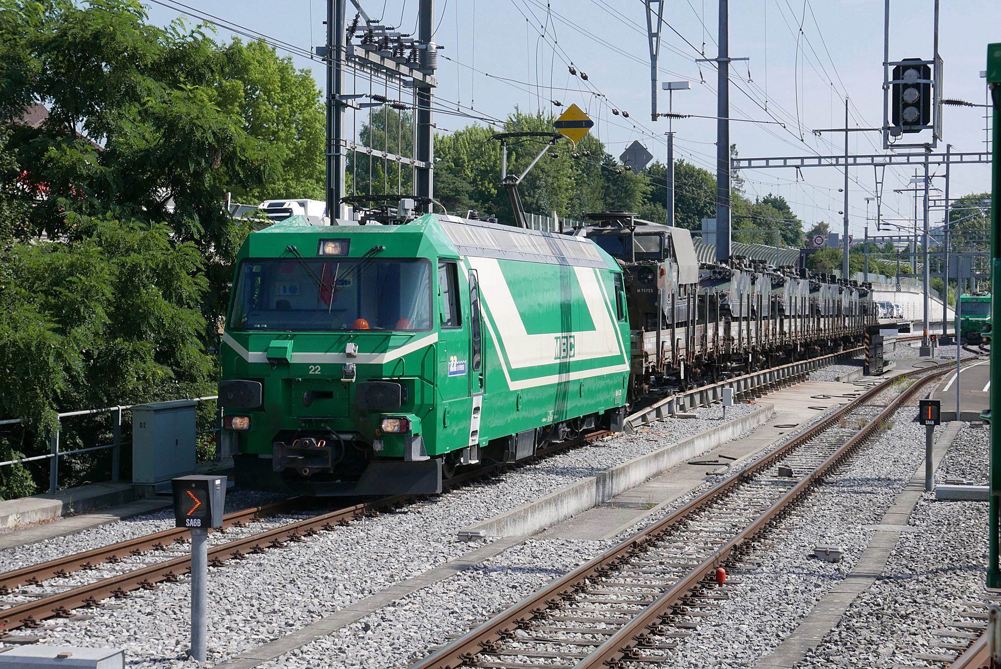 MBC Ge 4/4 22 at Morges train station ahead of a military train to Bière-Casernes.